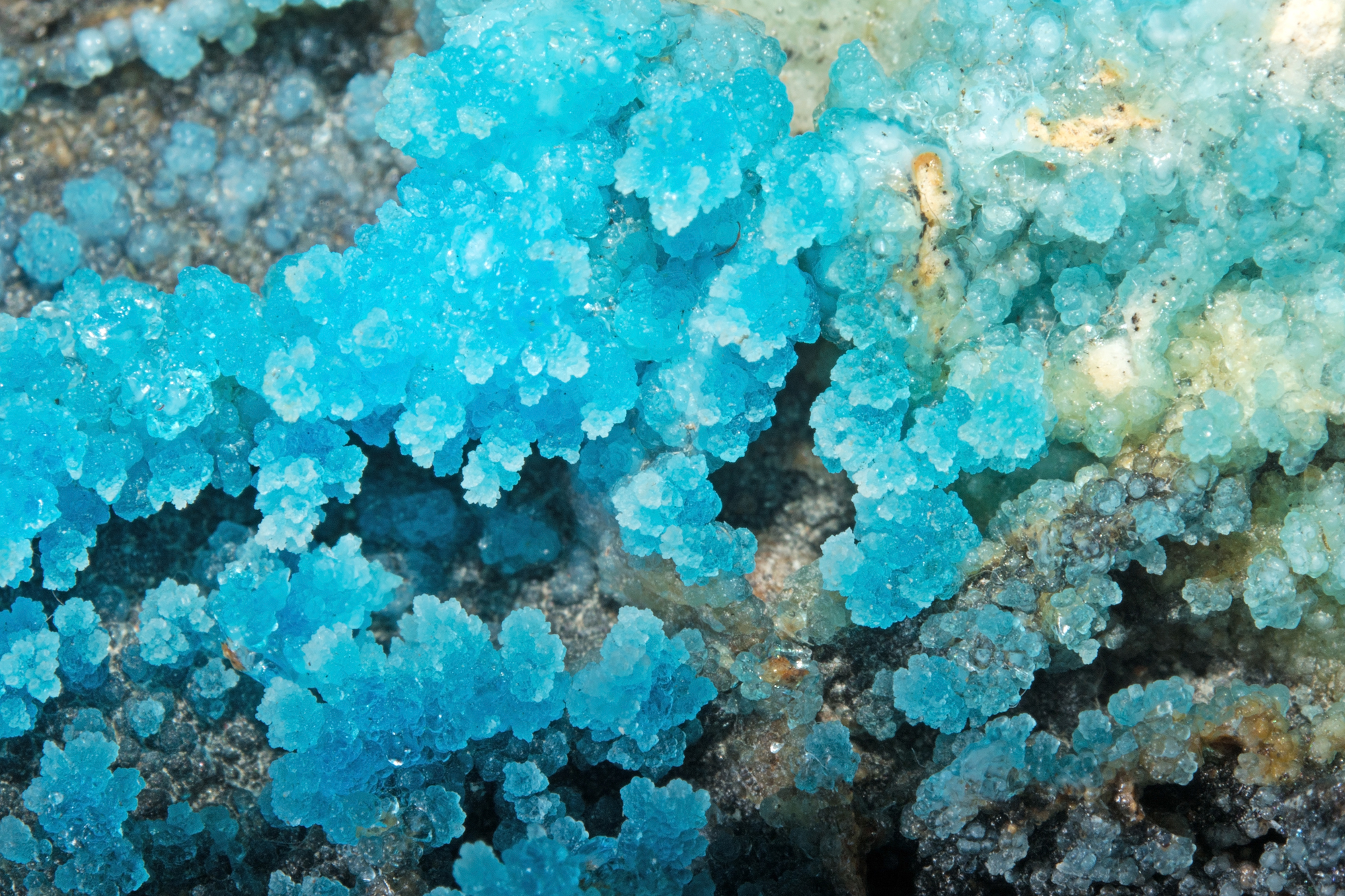 gibbsite : Hongsheke bauxite deposit, Yanshan Co., Wenshan Autonomus Prefecture, Yunnan province, China